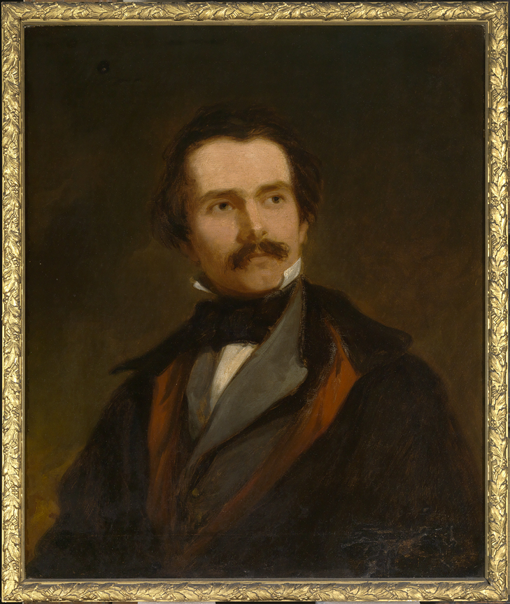 Picture 037